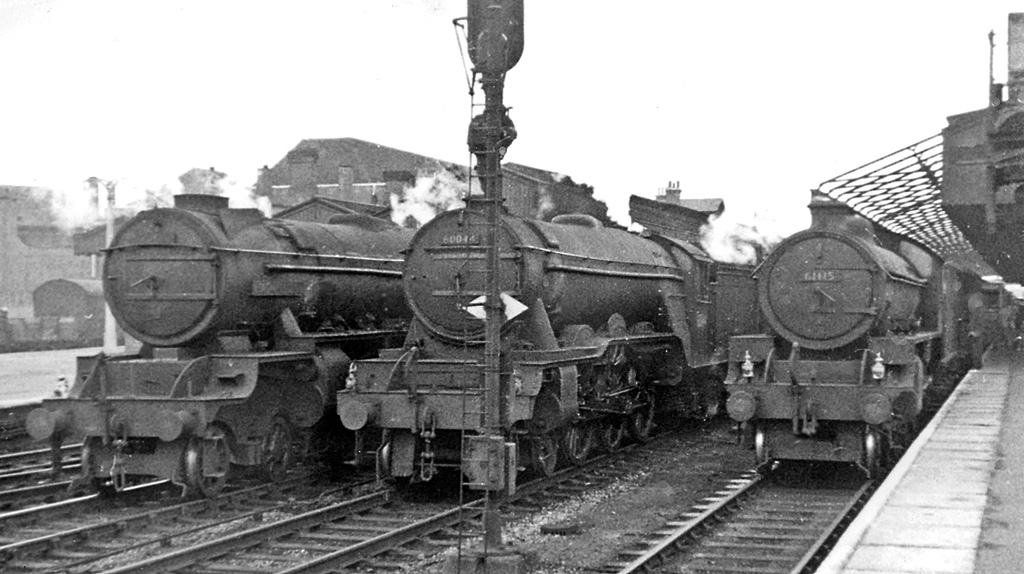 Line-up of steam at Doncaster Station in 1953. View southwards, towards London and the South on the ex-Great Northern East Coast Main Line; also towards Lincoln etc. on the Joint Line and Sheffield etc. on the ex-Great Central. I was standing near the north end of Platform 7, where B1 4-6-0 No. 61125 has arrived on a train from Sheffield Victoria. On the left is A2/2 4-6-2 (rebuilt from a P2 2-8-2) No. 60503 'Lord President', which had failed - short of steam! - on the 12.10 King's Cross - Newcastle, and in the middle is A3 4-6-2 No. 60044 'Melton' about to take this express onward.